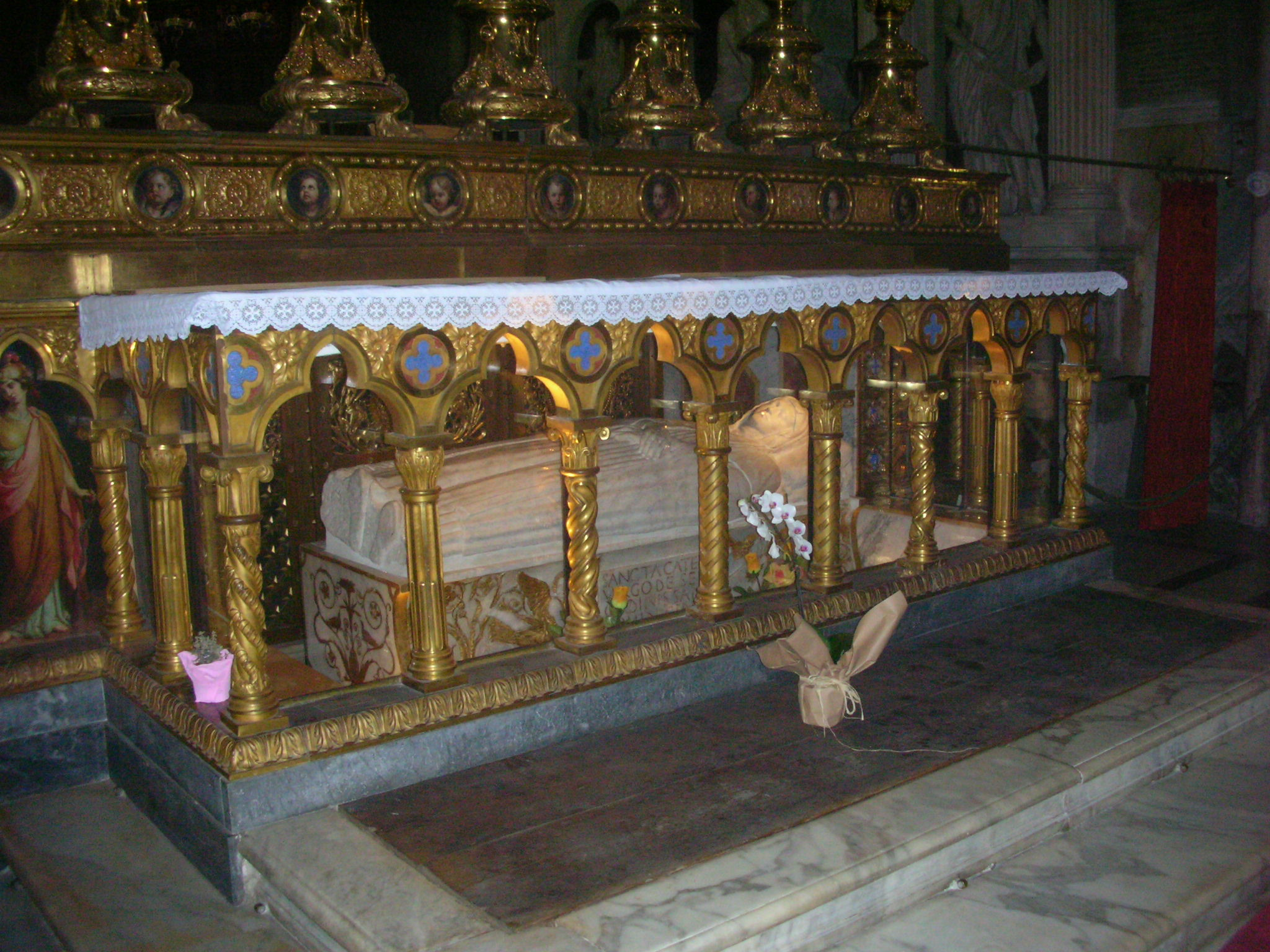 Sarcophagus of Saint Catherine of Siena, given to Isaia da Pisa (worked in years 1447-1464), beneath the High Altar of the church of Santa Maria sopra Minerva, Rome.